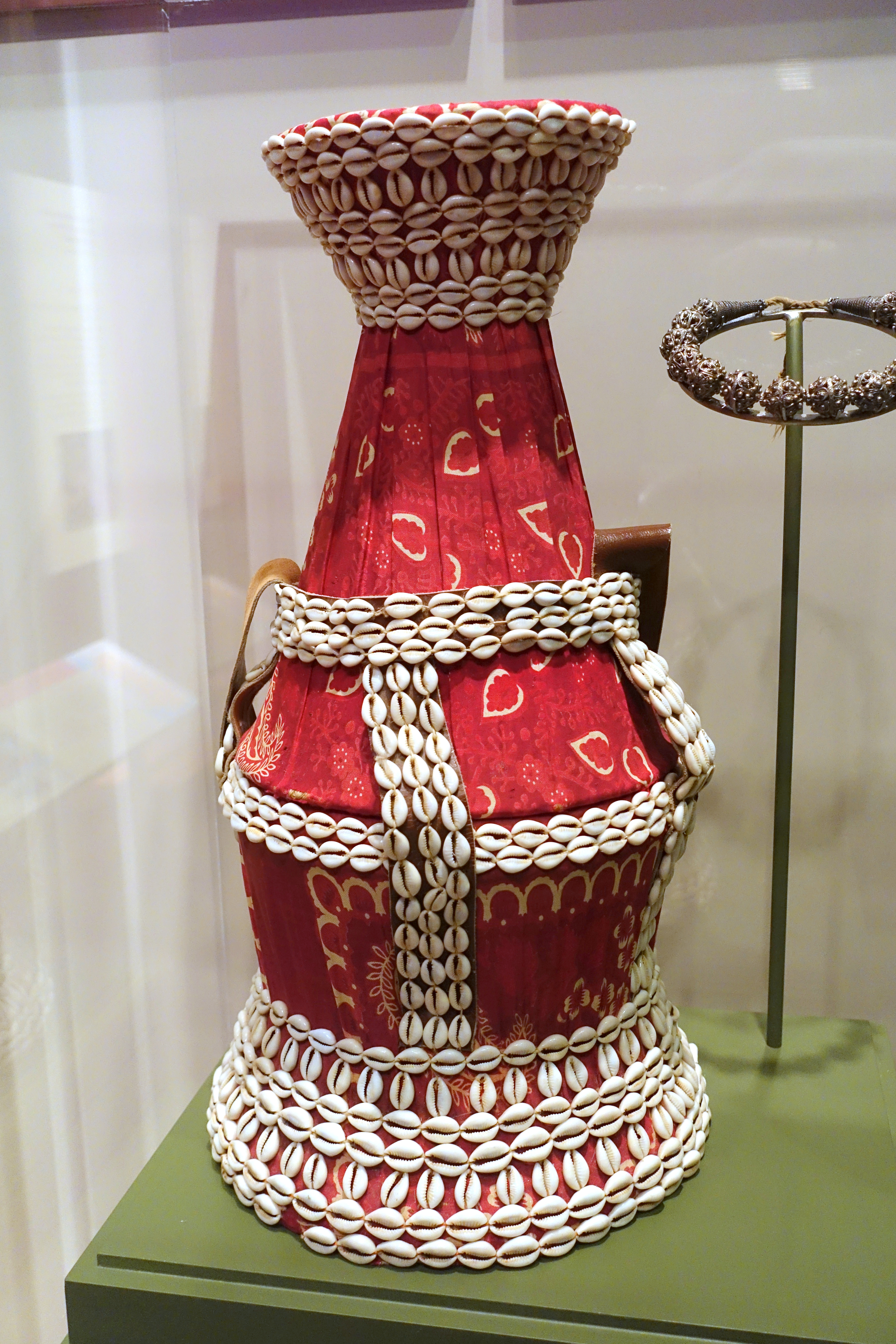 Exhibit in the National Museum of Natural History, Washington, DC, USA.